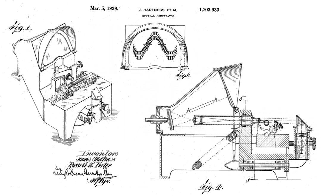 Patent drawings (edited for simplicity) of optical comparator invented by James Hartness and Russell Porter